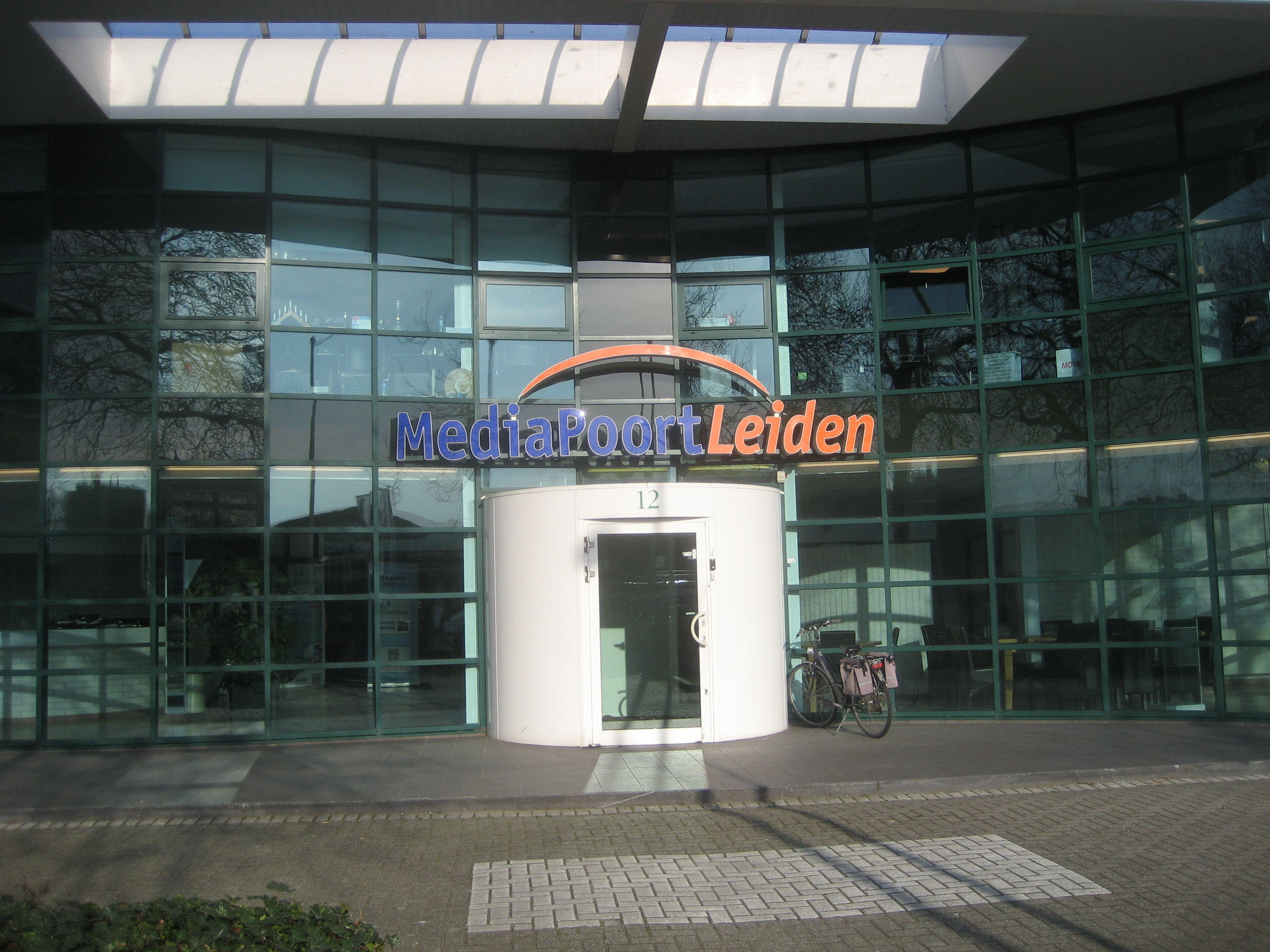 Gebouw MediaPoort, Rooseveltstraat, Leiden (Nederland). Redactie Leidsch Daglad, 2016